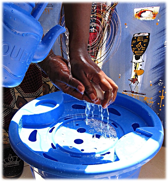 Just before the meal is served to family and guests, the washing basin, soap, pitcher and a hand towel are presented to each person so they can wash their hands at their seats. Once a practical solution in places without running water, with more and more homes now with plumbing, it remains a charming polite hospitality service for guests and family elders; some basins are simple plastic like this one, other more expensive versions are made of metal with ornate designs; there are models and prices for every household budget. This is an image of food from Senegal